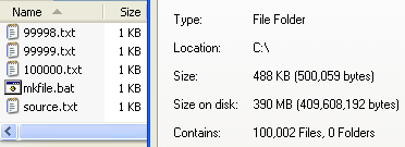 100 000-files 5-bytes each -- 400 megs of slack space -- Windows XP screenshot but with no copyrighted content present